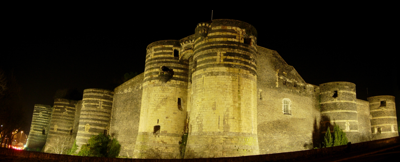 Castle of Angers by night.